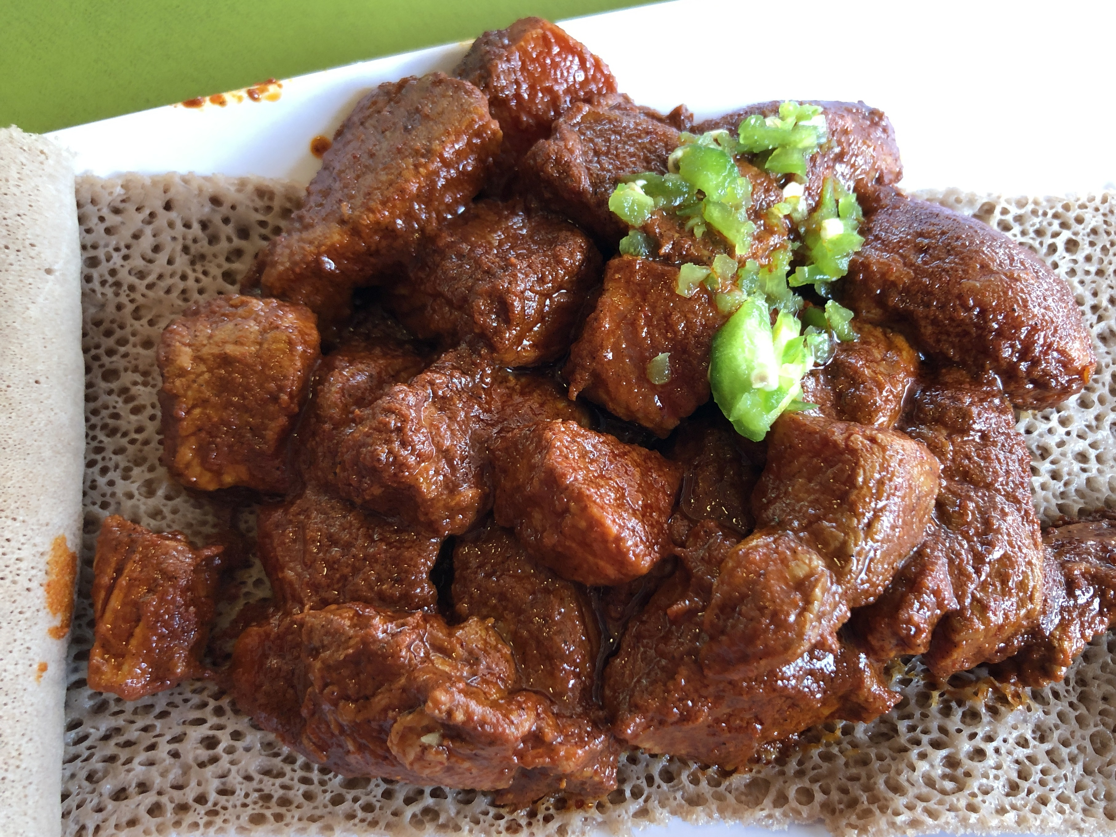 Gored gored on top of injera at a restaurant in Atlanta